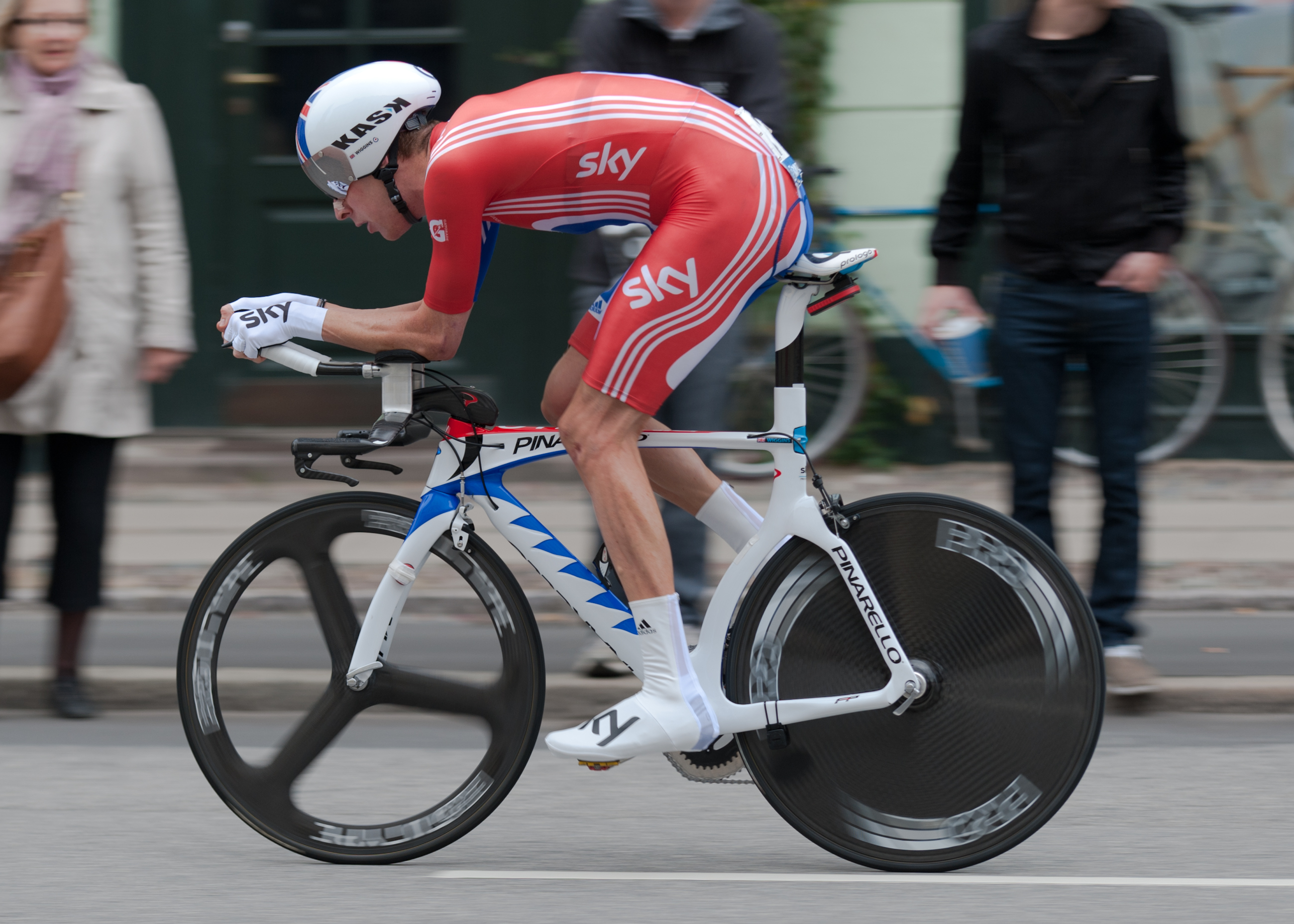 Bradley Wiggins at the 2011 UCI Road World Championship in Copenhagen.